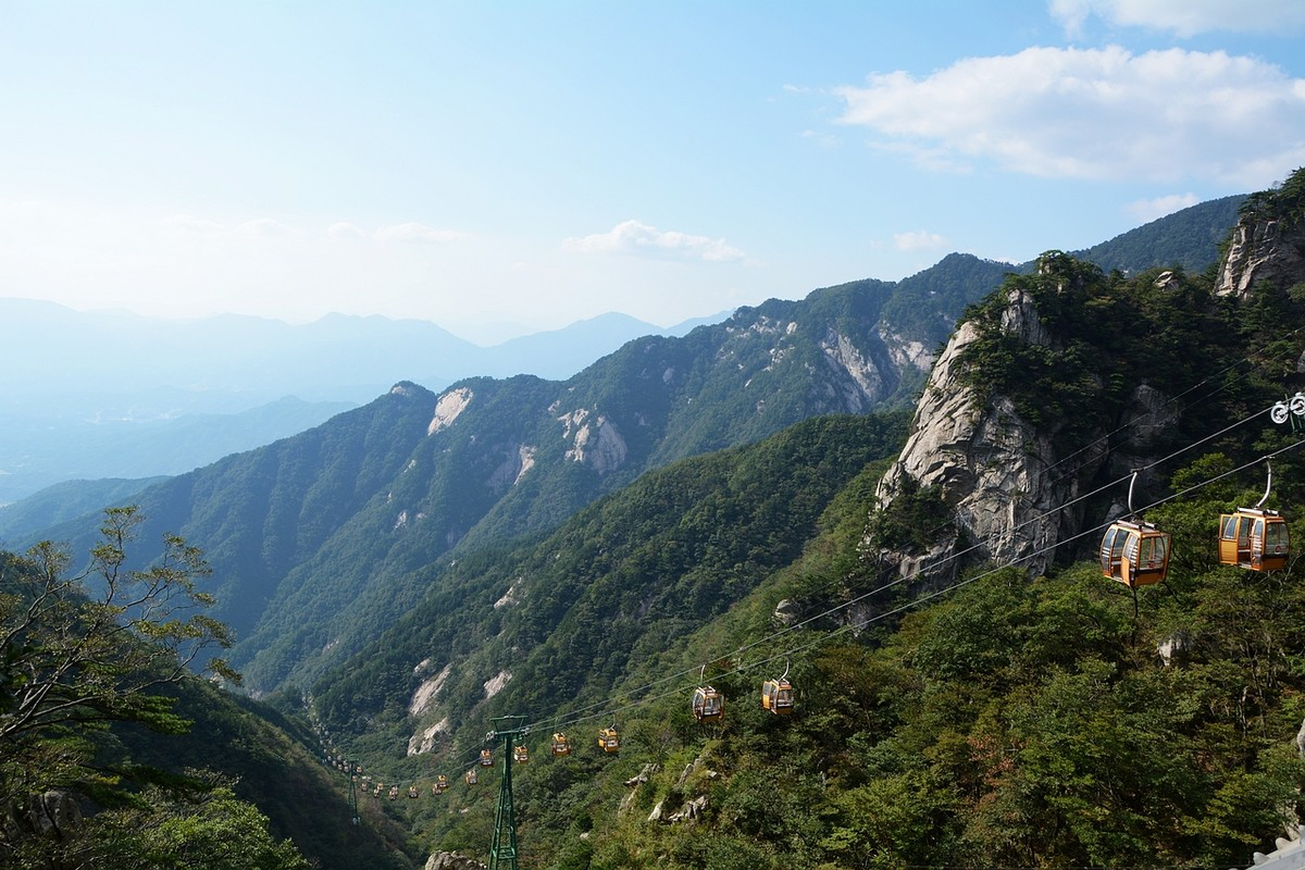 cable cars to the peak of Tiantangzhai Mountain